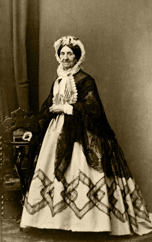 Maria Razumovskaya